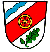 Coat of Arms of Sailauf